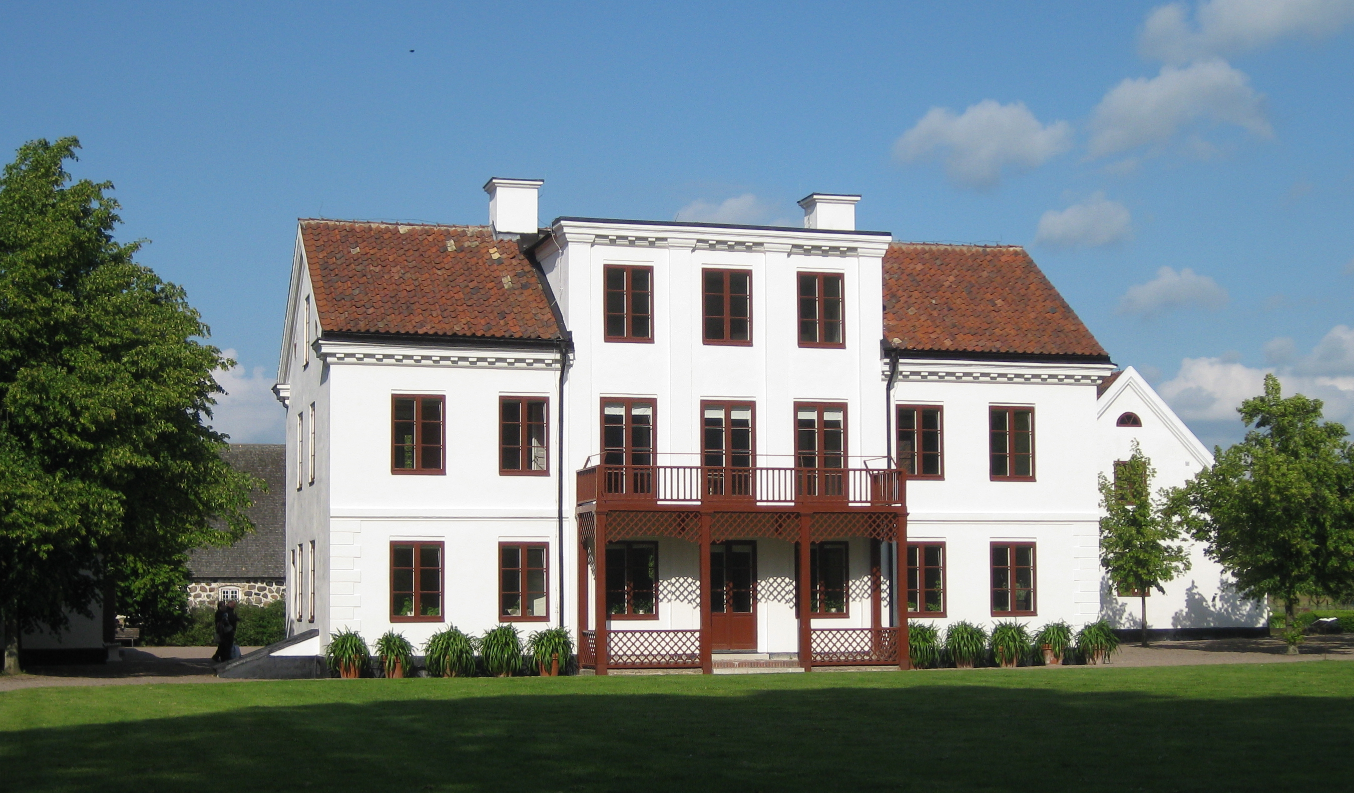 Fredriksdal house, Helsingborg, Sweden